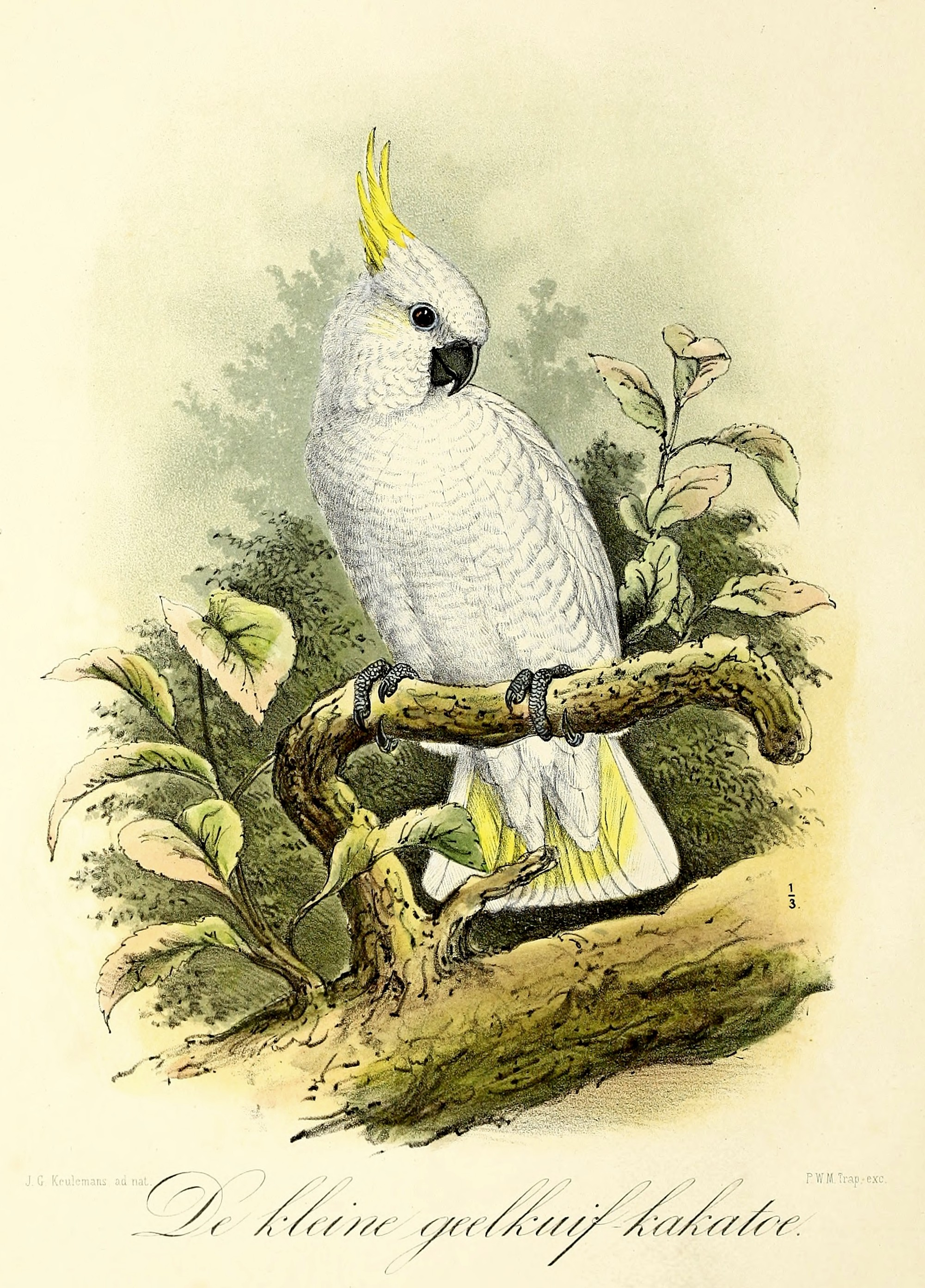 « Cacatua triton » = Cacatua galerita triton (Subspecies of Sulphur-crested cockatoo)